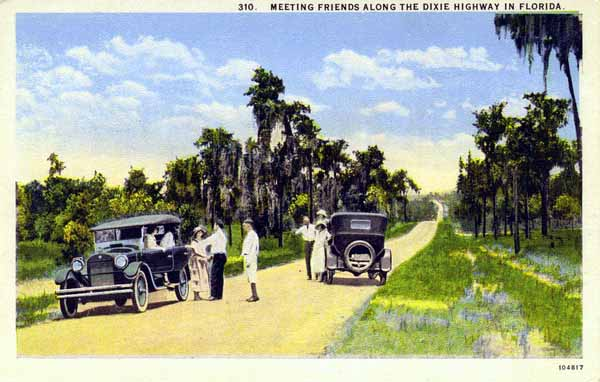 Persistent URL: Local call number: PC0003 Title: "Meeting Friends Along the Dixie Highway in Florida" Date: ca. 1925 Physical descrip: 1 postcard - col. - 9 x 14 cm. Series Title: Repository: 500 S. Bronough St., Tallahassee, FL, 32399-0250 USA, Contact: 850.245.6700